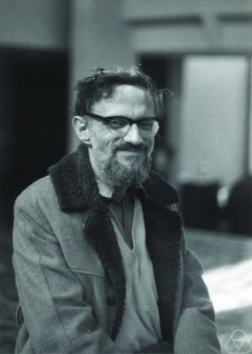 Hillel (Harry) Furstenberg in Jerusalem, 1975